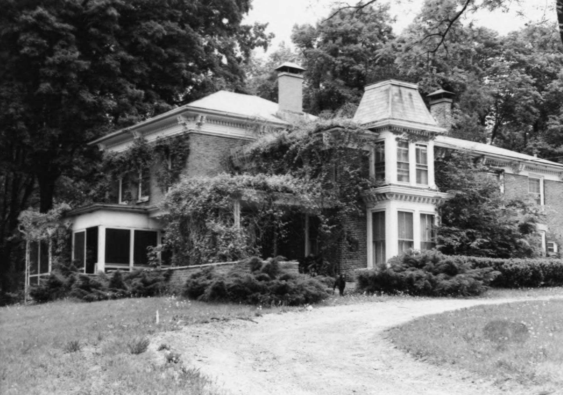 Robert M. LaFollette House, Maple Bluff (Dane County, Wisconsin) This image or media file contains material based on a work of a National Park Service employee, created as part of that person's official duties. As a work of the U.S. federal government, such work is in the public domain in the United States. See the NPS website and NPS copyright policy for more information. Object location43° 06′ 52″ N, 89° 22′ 22″ W